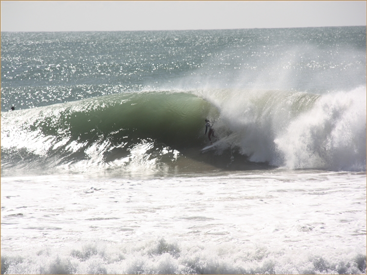 Taghazout surfing